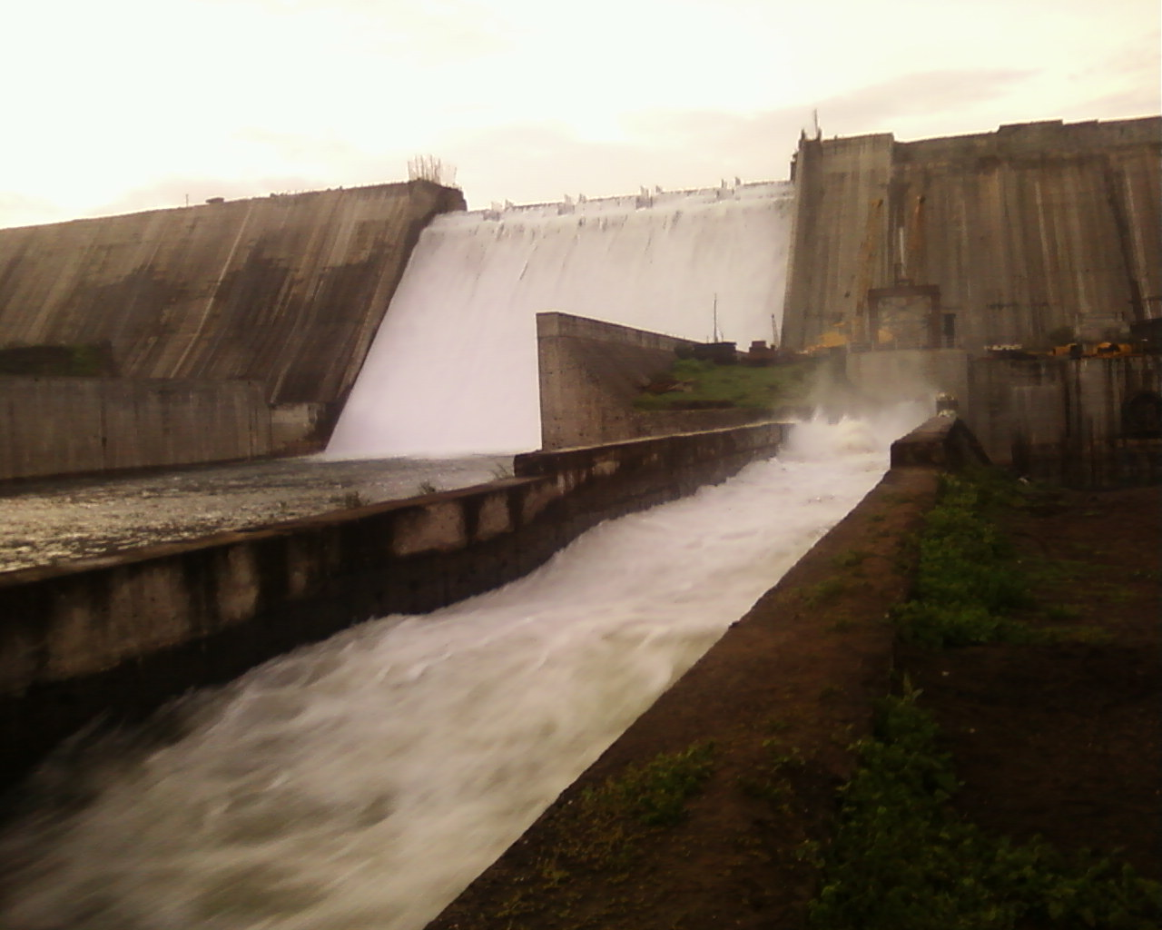 Nilwande_Dam